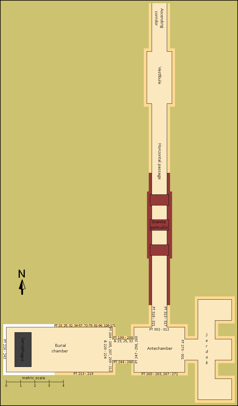 A depiction of the layout of Unas' substructure, including the relative positions of pyramid texts and colour-coded walls. Light orange: Fine white tura limestone; Red: Red granite; White: White alabaster; Dark grey: Greywacke. Based on Sethe, Kurt (1922) Die altaegyptischen Pyramidentexte nach den Papierabdrücken und Photographien des Berliner Museums, Dritter Band, Leipzig: J. C. Hinrischs'sche Buchhandlung, pp. 116–119 & 164–166